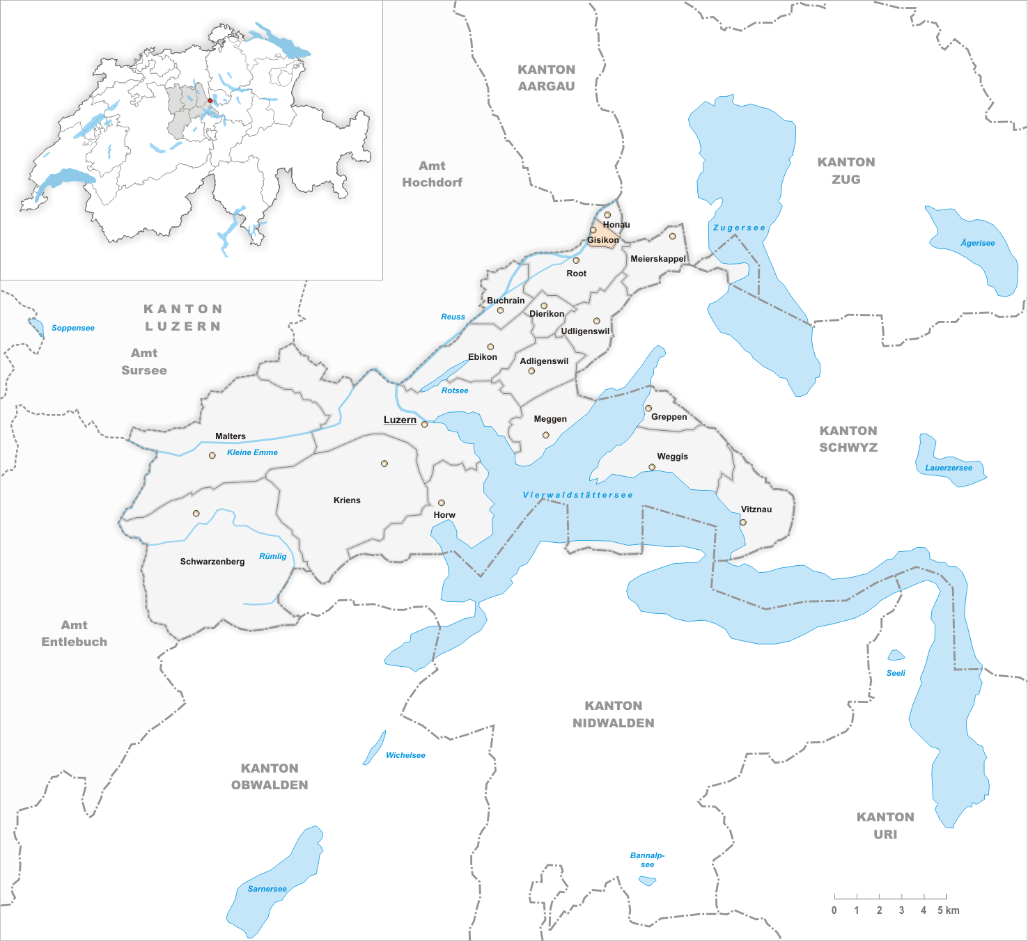 Municipality Gisikon